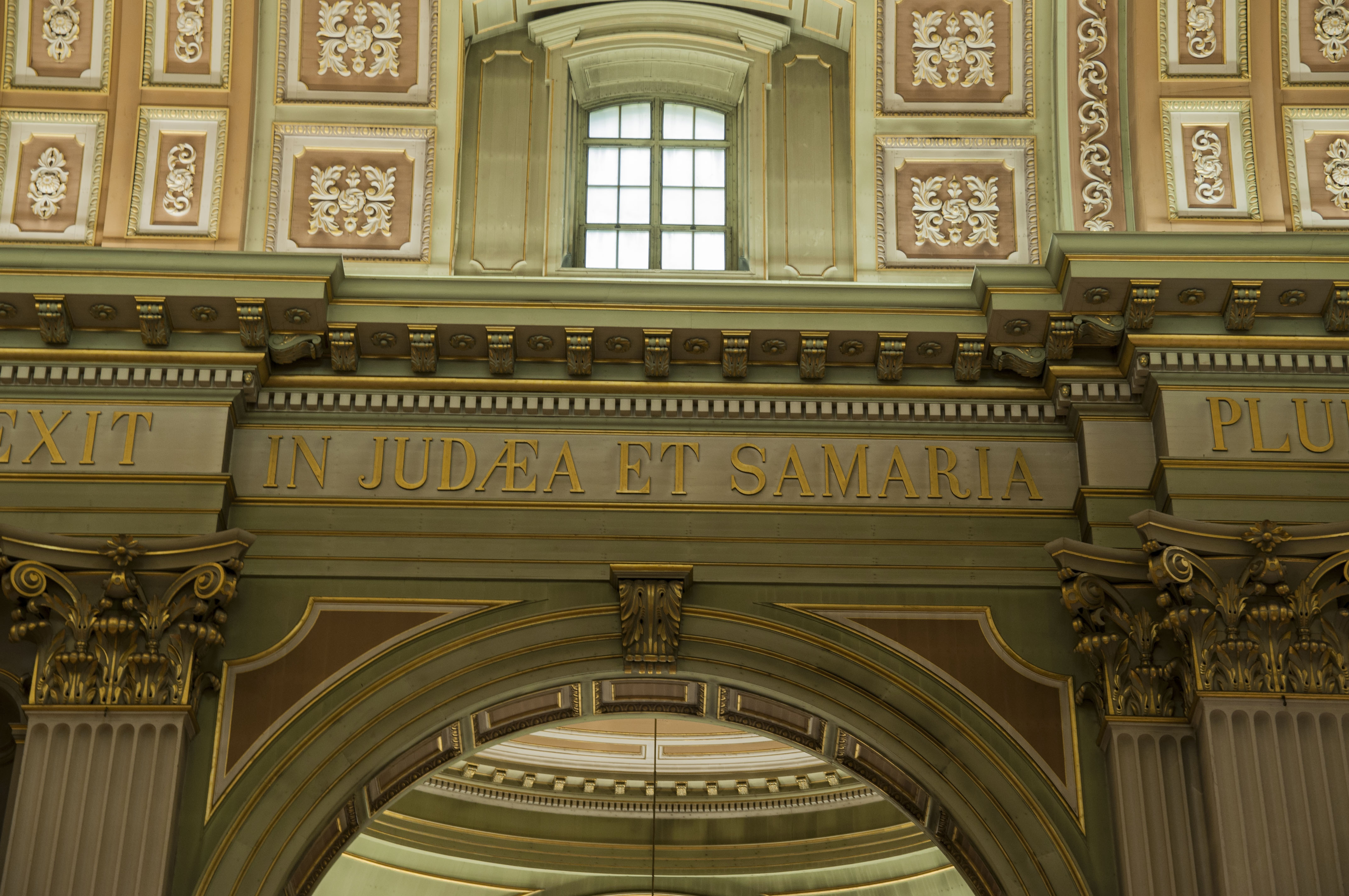 A minor basilica in Montreal, Quebec, Canada, and the seat of the Roman Catholic archdiocese of Montreal, it is the third largest church in Quebec.